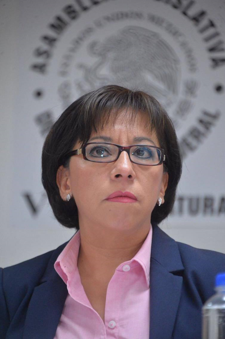 feminista Beatriz Rojas